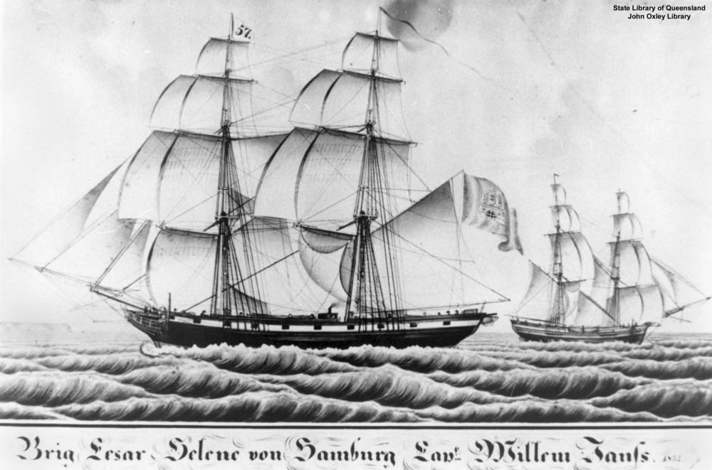 Cesar & Helene. Wood, 2 mast brig, 266t, B. 1856 J. C. Godeffroy, Reiherstieg, 32.20x7.41x4.03m. Owners: J. C. Godeffroy & Sons, reg. Hamburg. Burnt in New York in 1864. Captain Jacob Meyer. (Information taken from: R. Parsons, Migrant sailing ships from Hamburg, 1993).